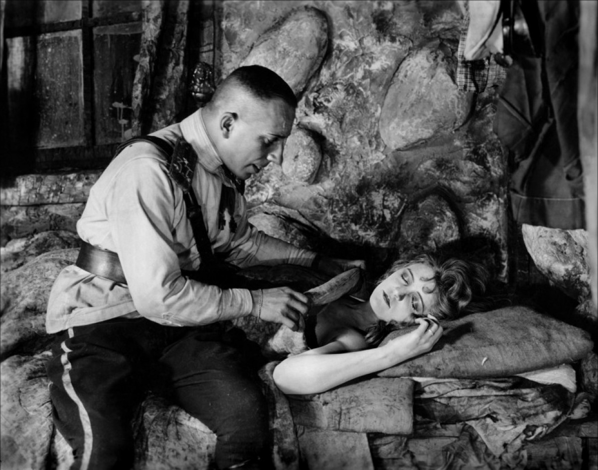 Erich von Stroheim & Miss DuPont (not Mae Busch) in Foolish Wives - publicity still